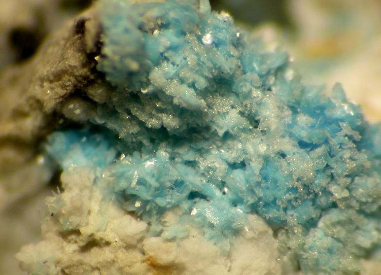 Paratooite-(La) Locality: Paratoo copper mine, Yunta, Olary Province, South Australia, Australia (Locality at ) Field of view 6 mm. Specimen and photo Leon Hupperichs. My thanks to Volker Hoppe for this very fine exchange specimen.